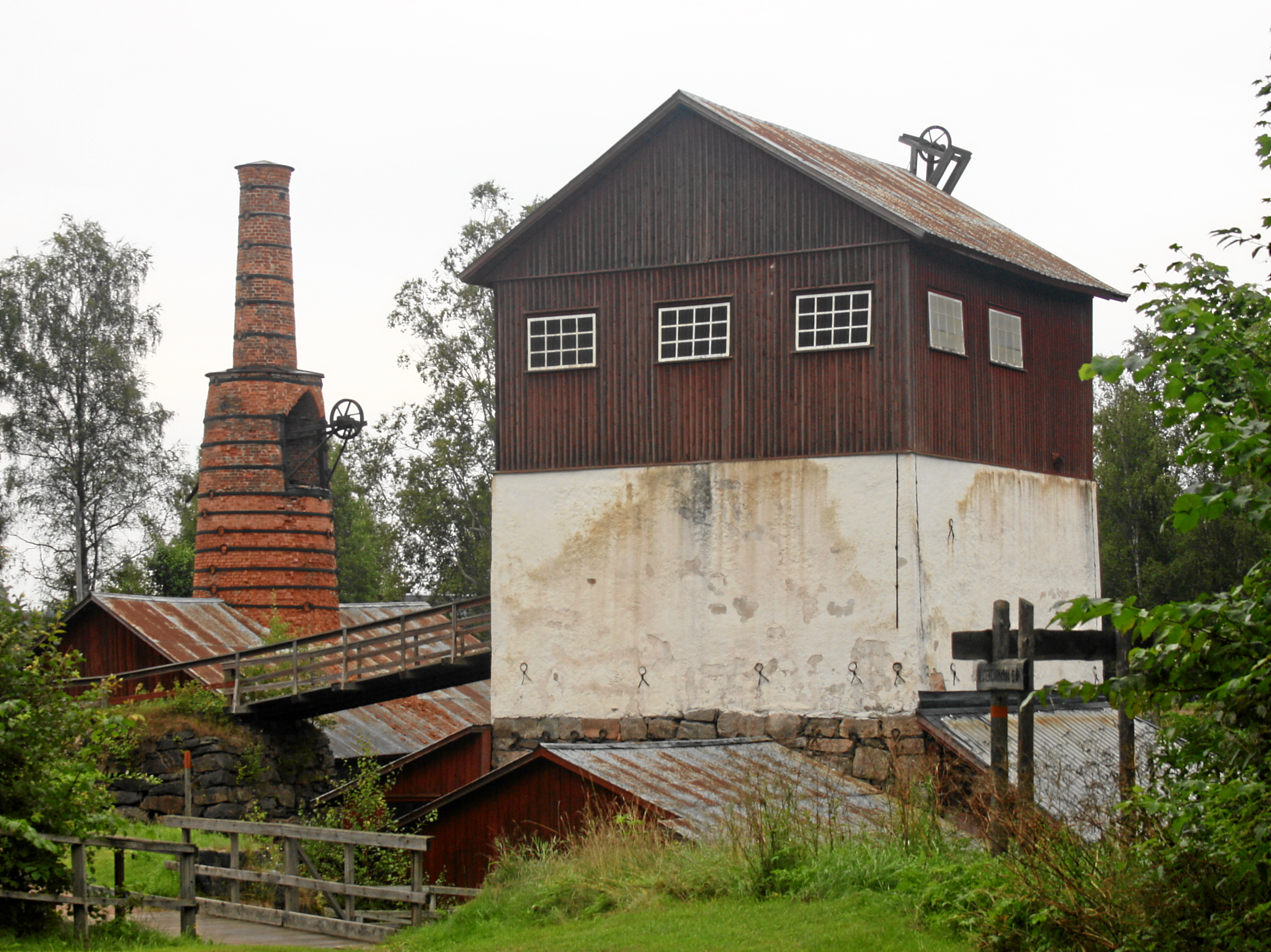 Filipstad kommun, Sweden. Brattforshyttan iron foundry, view from South.